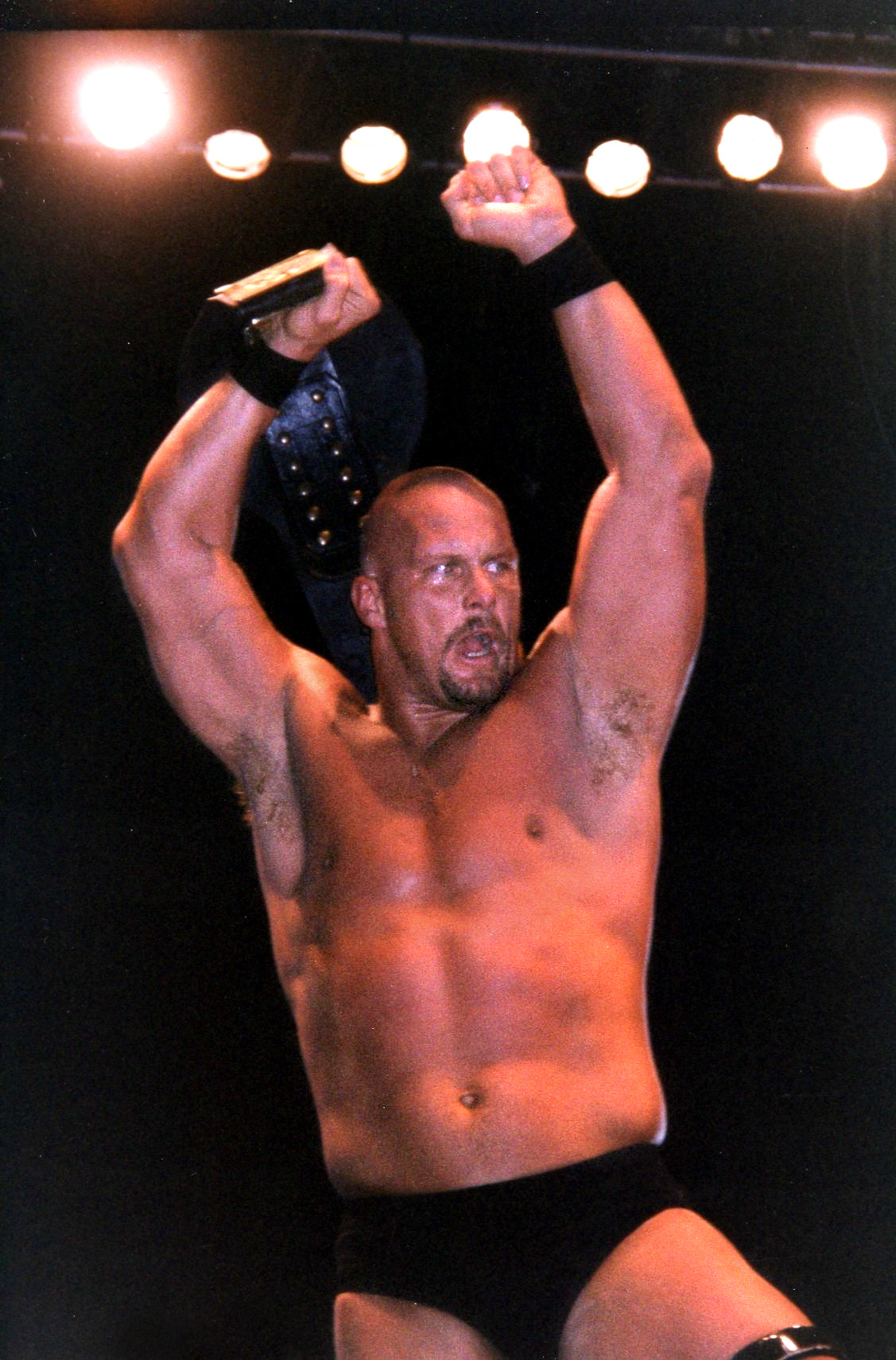 WWE - Sheffield 020499 (52)